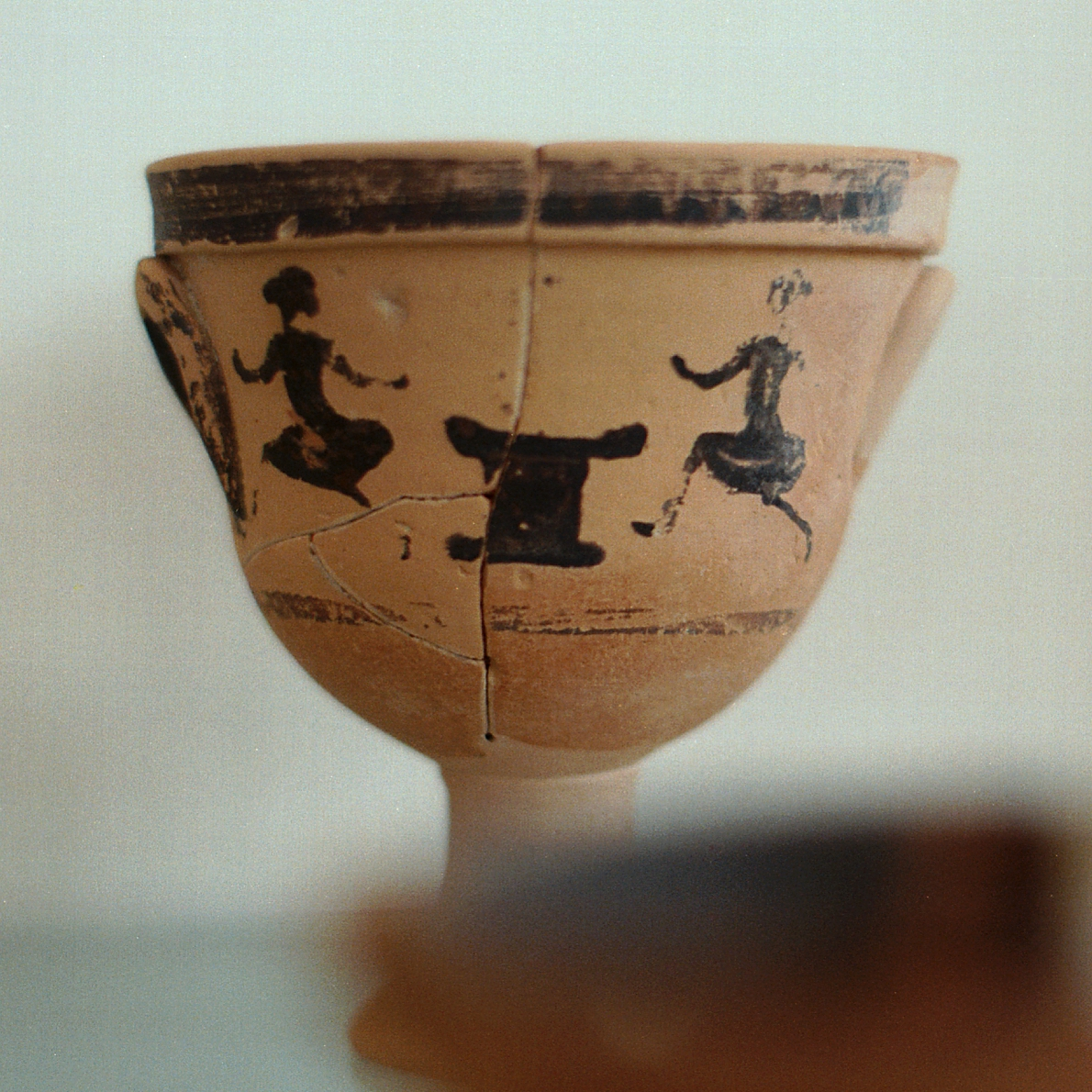 Girls dancing around the altar for Artemis. Black-figure painting on a smaller cup, around 500 BC. Archaeological Museum of Brauron.